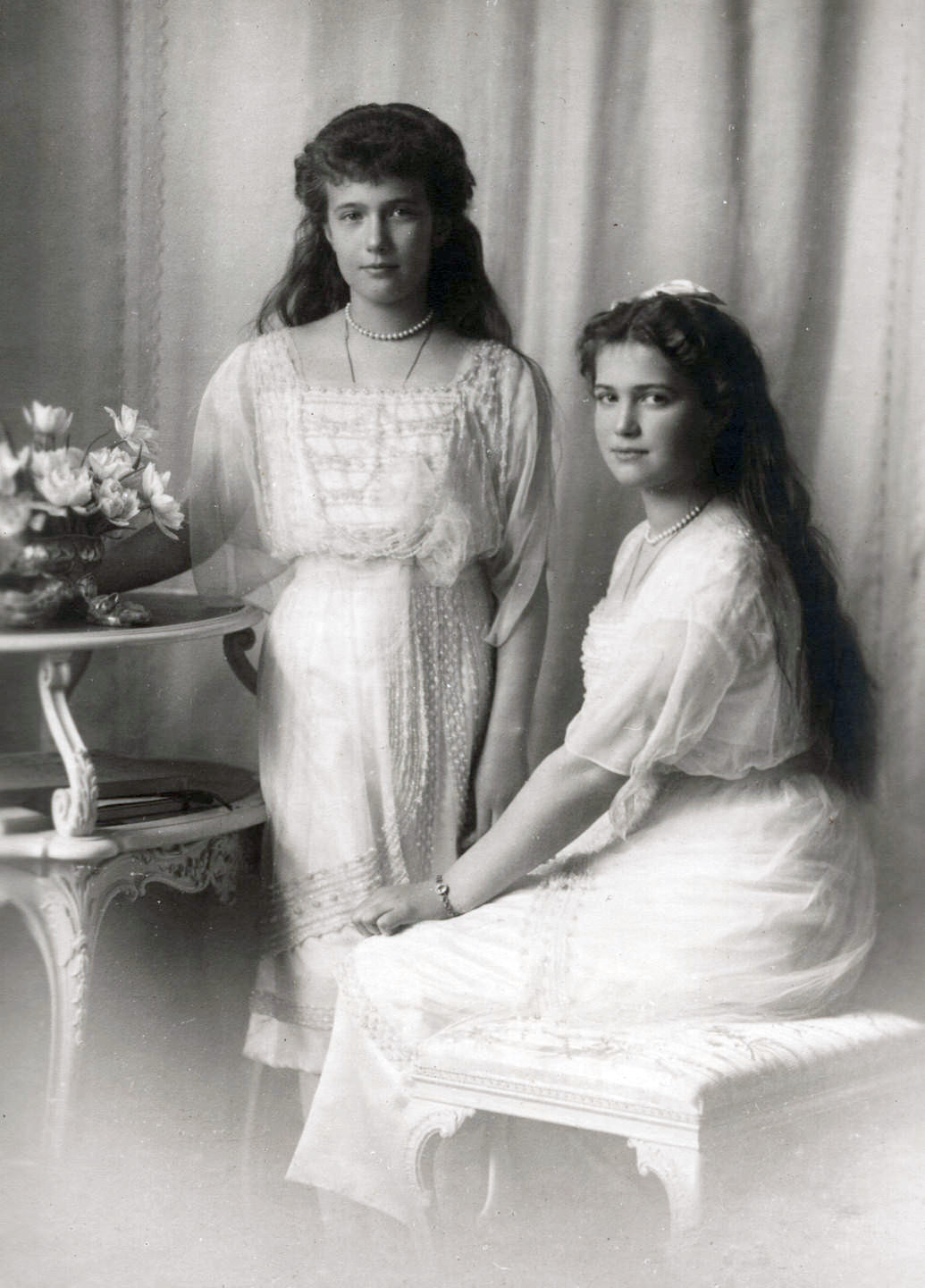 Anastasia and Maria Nikolaevna of Russia.